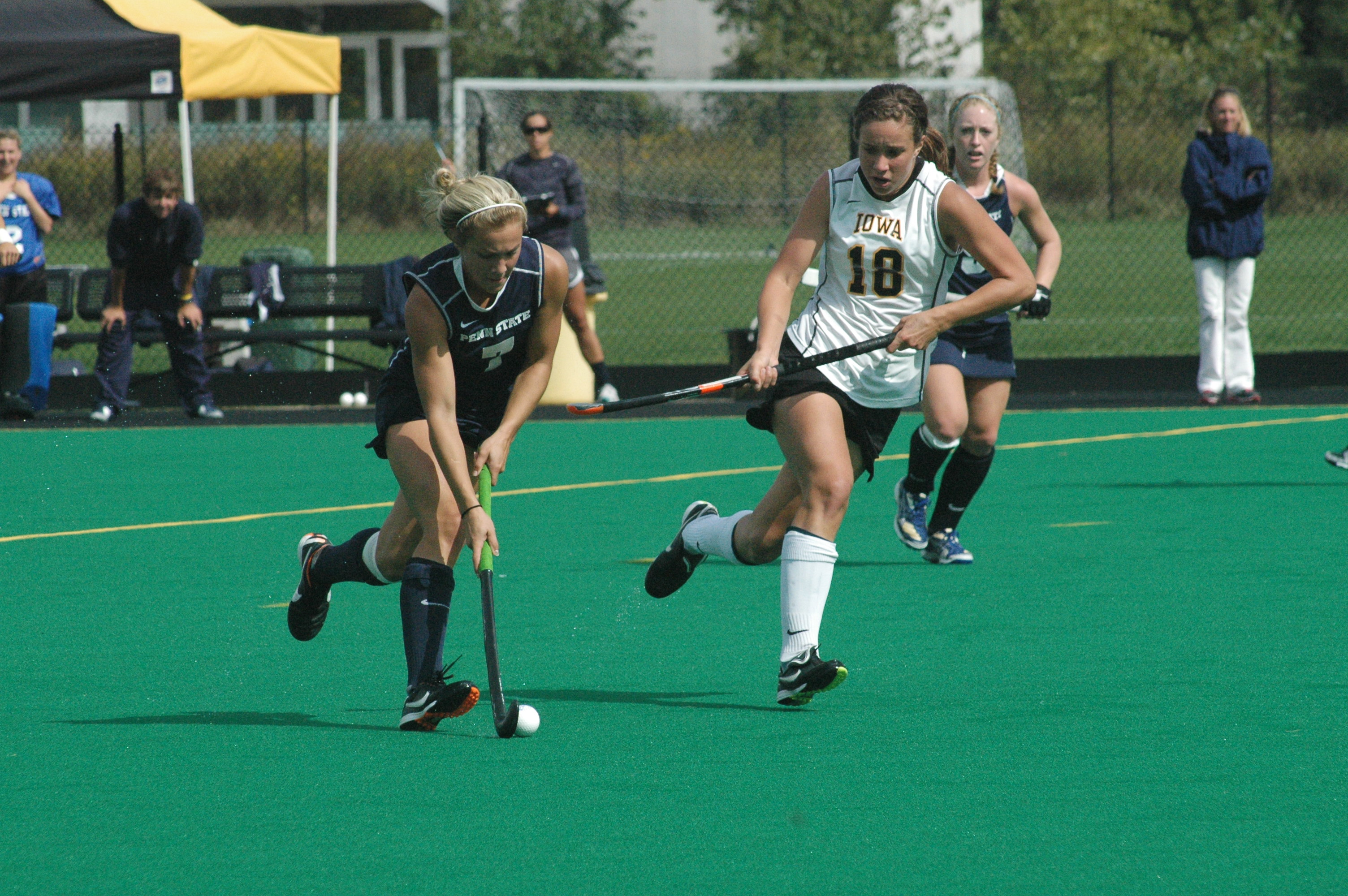 The Penn State Nittany Lions vs. the Iowa Hawkeyes during a Big Ten field hockey game in Iowa City, Iowa.